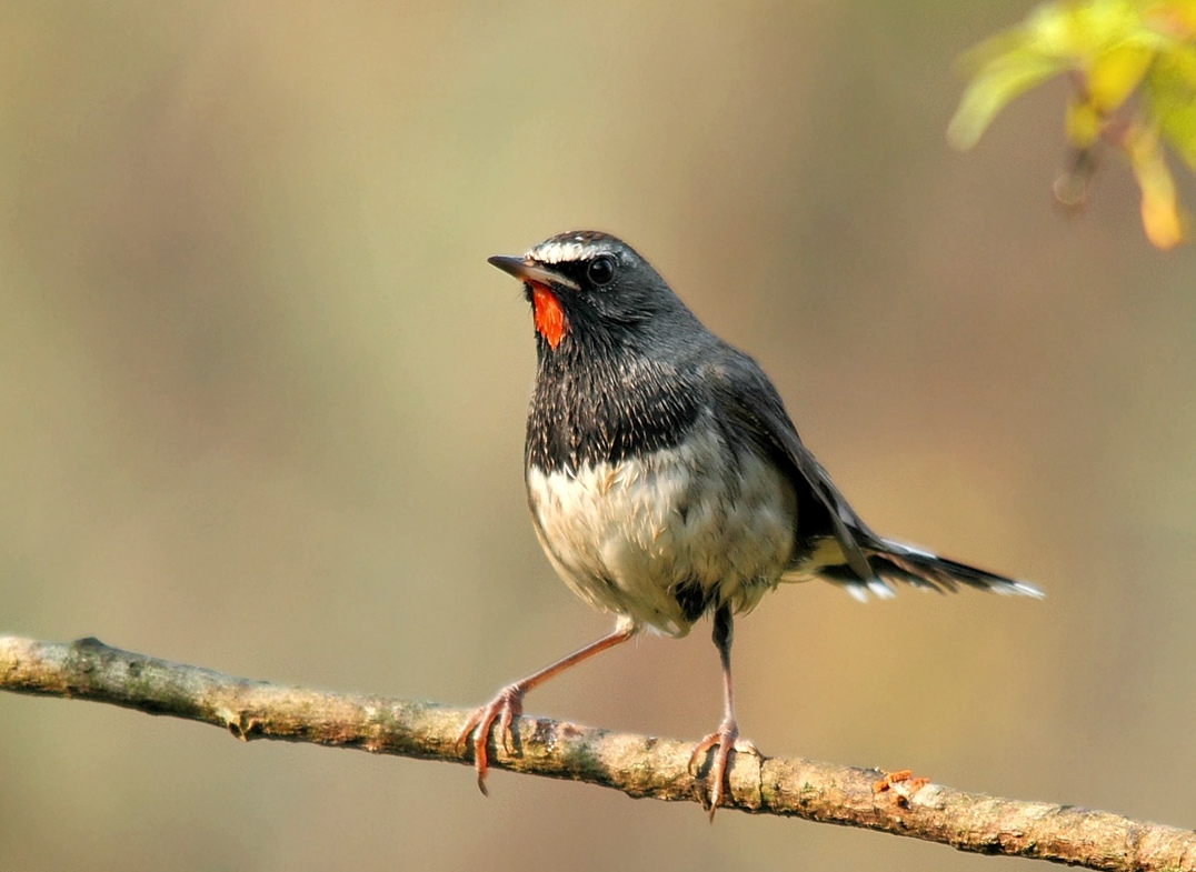 White tailed Rubythroat at Dehradun, India. A winter visitor here. . .